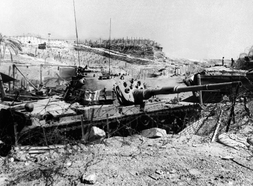 An knocked out Israeli M60 tank in the Sinai. In the background is a bunker of the Bar Lev Line.